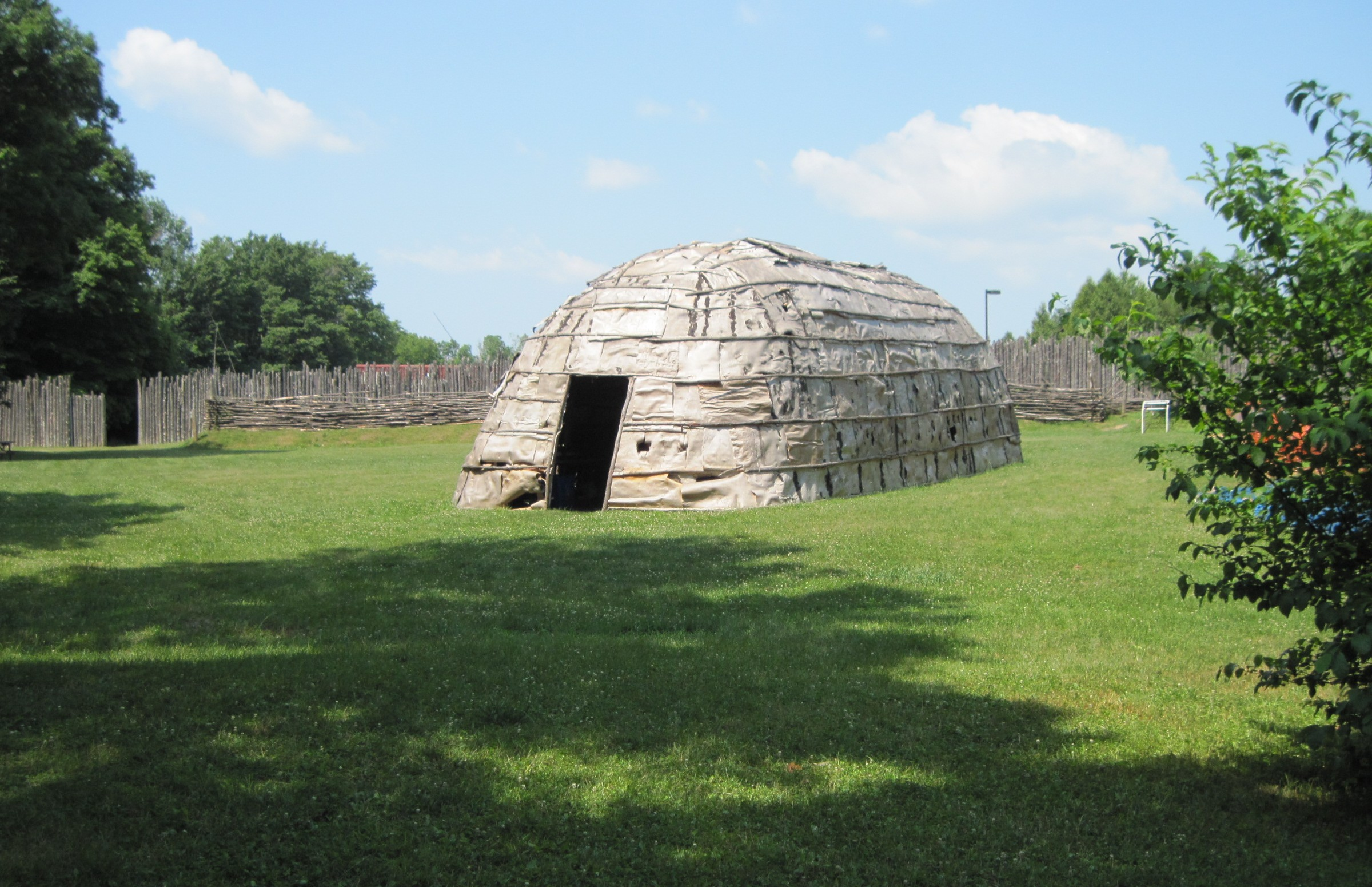 A reconstructed longhouse of the Attawandaron nation as it would have stood at the Lawson site in the 16th century. Museum of Ontario Archaeology.